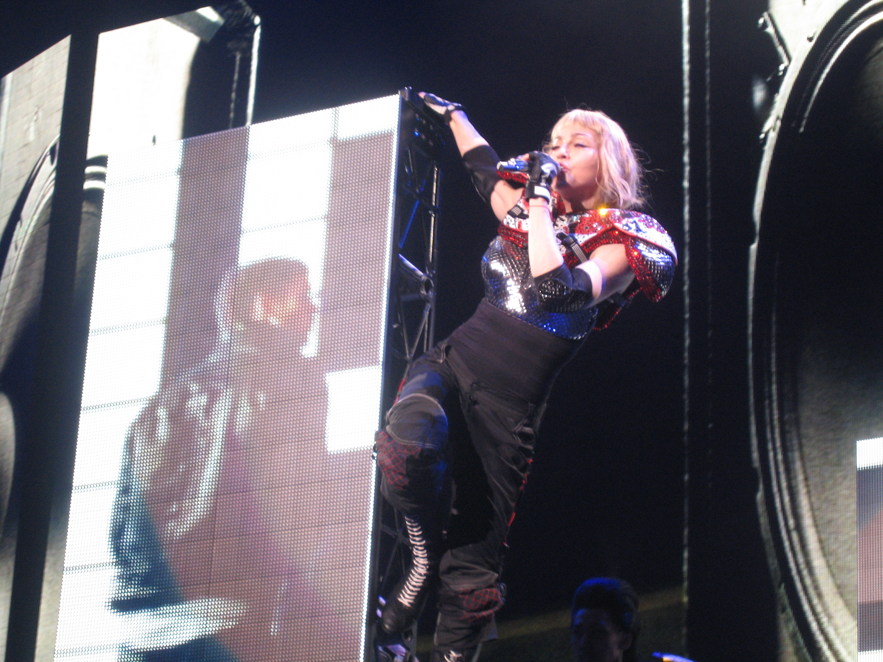 Picture of the concert